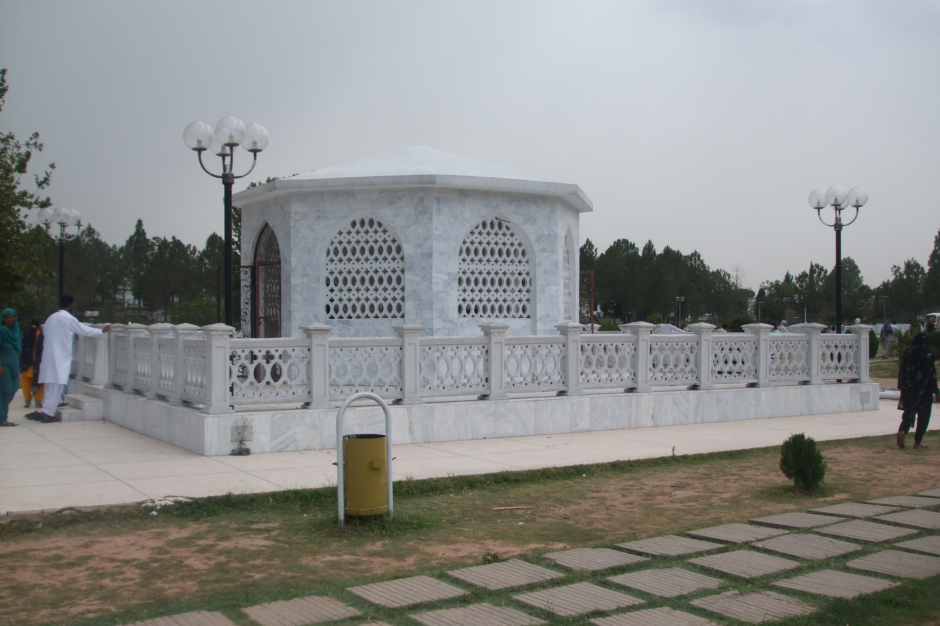 Tomb of Muhammad Zia-ul-Haq — Islamabad. 20th century Pakistani military dictator.